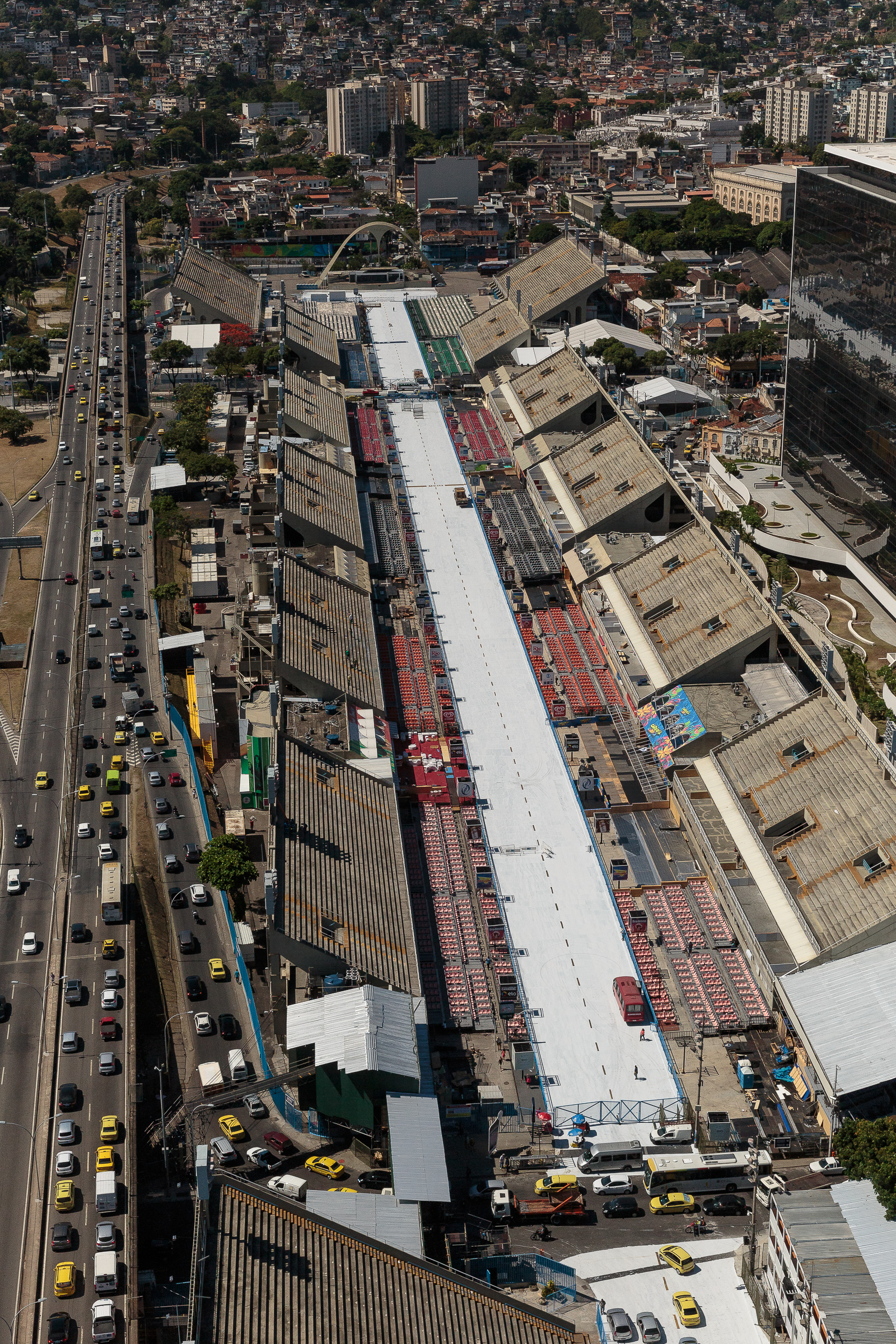 Vista aérea do Sambódromo da cidade do Rio de Janeiro